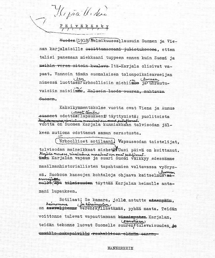 The text of the "Order of the Day of the Sword Scabbard" with Mannerheim's edits.